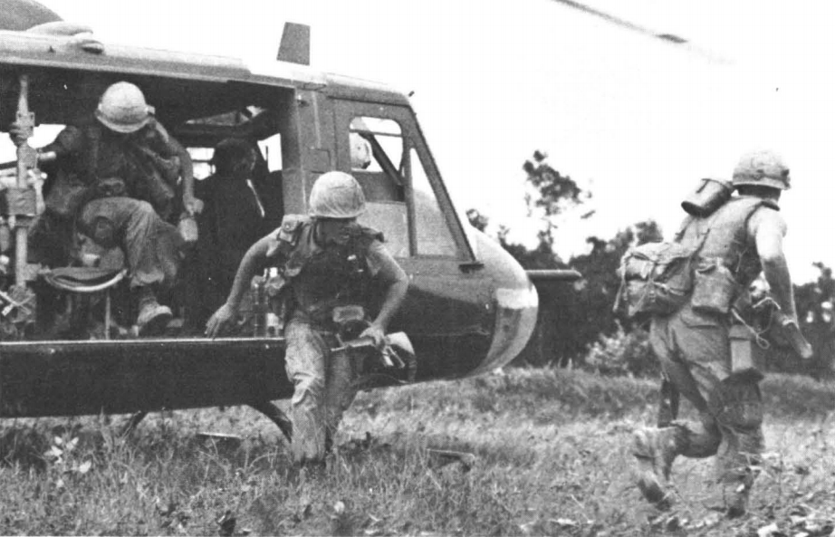 Troops leaving UH-1 copter.